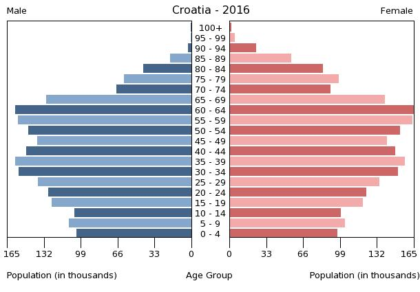 The population pyramid of Croatia illustrates the age and sex structure of population and may provide insights about political and social stability, as well as economic development. The population is distributed along the horizontal axis, with males shown on the left and females on the right. The male and female populations are broken down into 5-year age groups represented as horizontal bars along the vertical axis, with the youngest age groups at the bottom and the oldest at the top. The shape of the population pyramid gradually evolves over time based on fertility, mortality, and international migration trends.